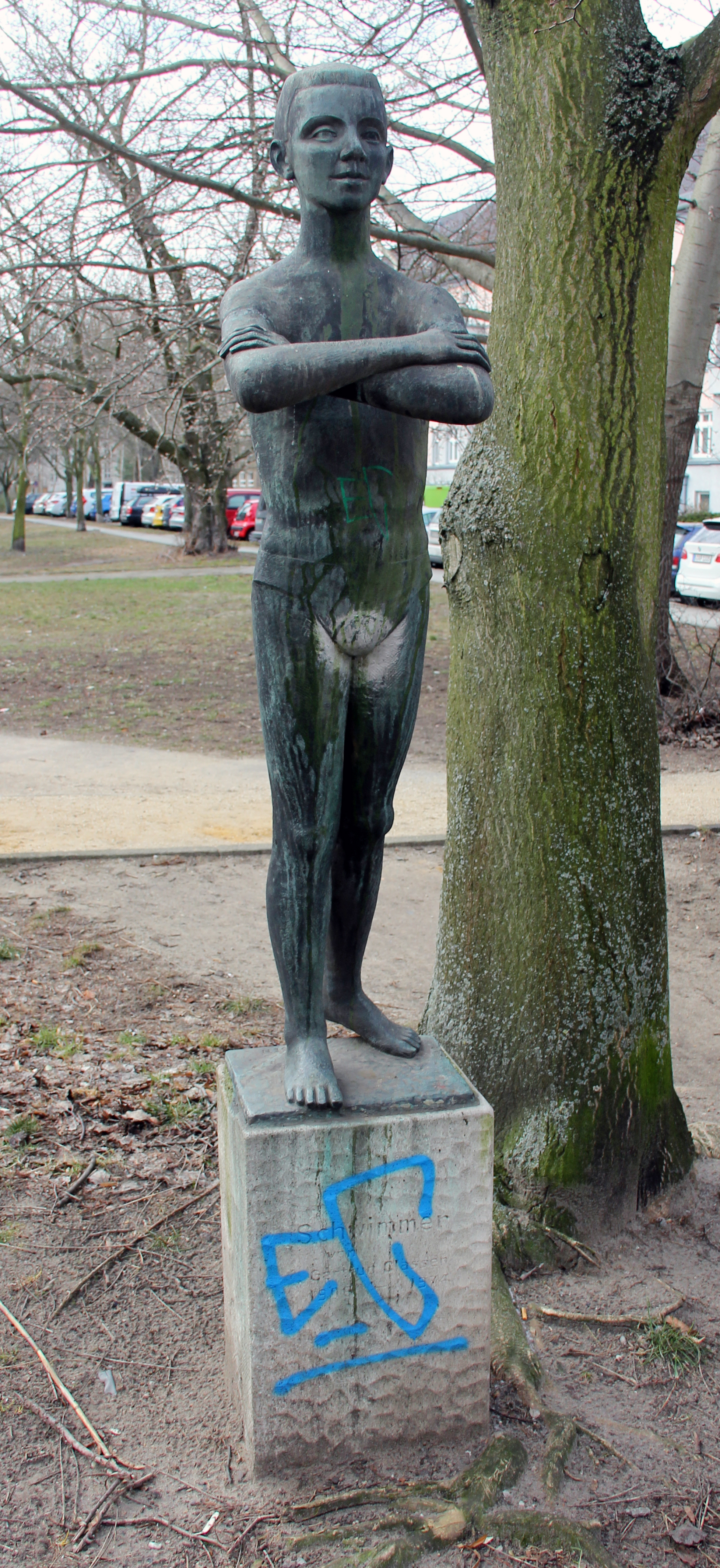 Statue, "Schwimmer" by Gertrud Classen, 1966, Kiefholzstraße 192, Berlin-Baumschulenweg, Germany